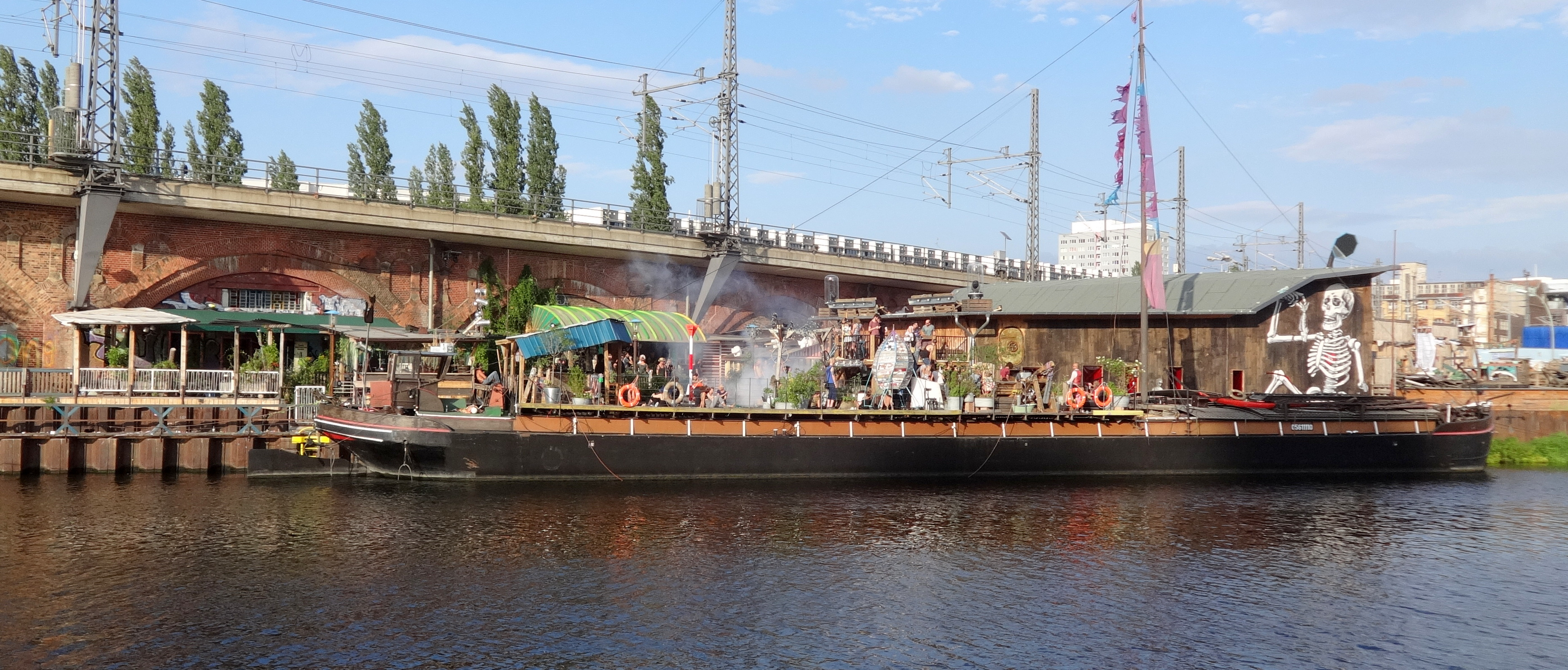 "Kater Blau" Club in Berlin